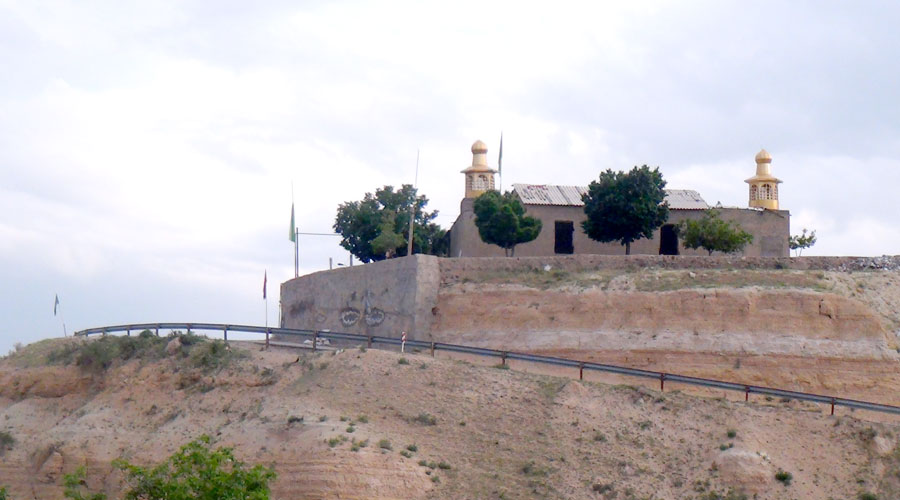 پیر حیران ممقان